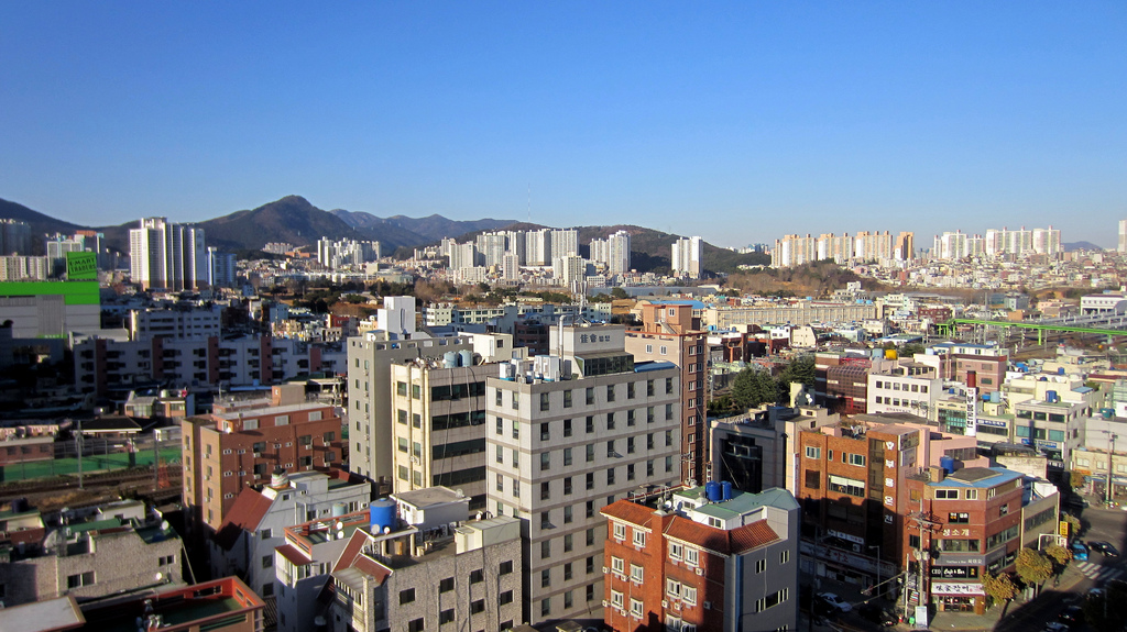 Busanjin-gu, Busan, South Korea. Photograph from Flickr; author Gregory Foster; license of cc-by-2.0.